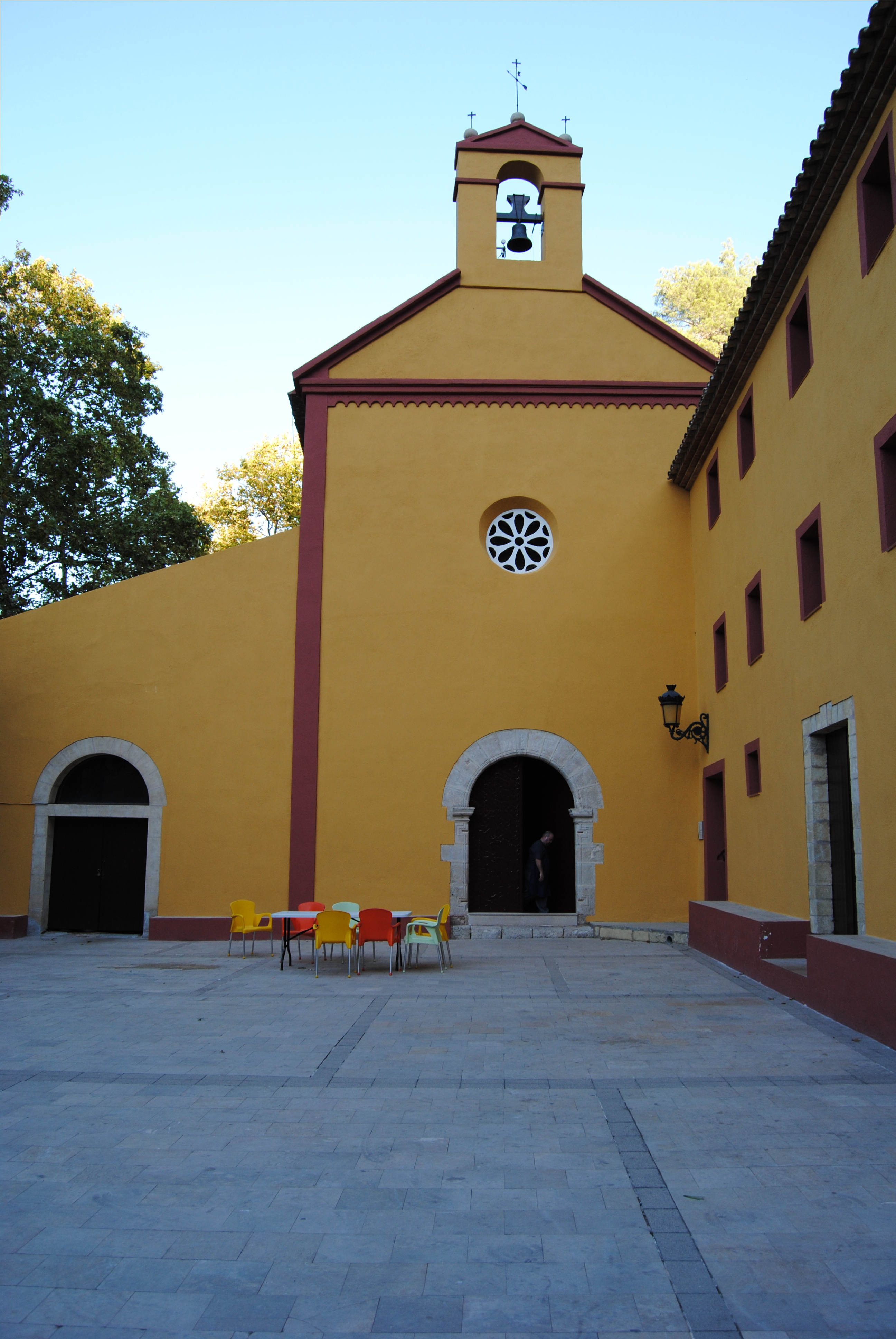 Hermitage of Santa Marina, Pratdip, Tarragona, Spain